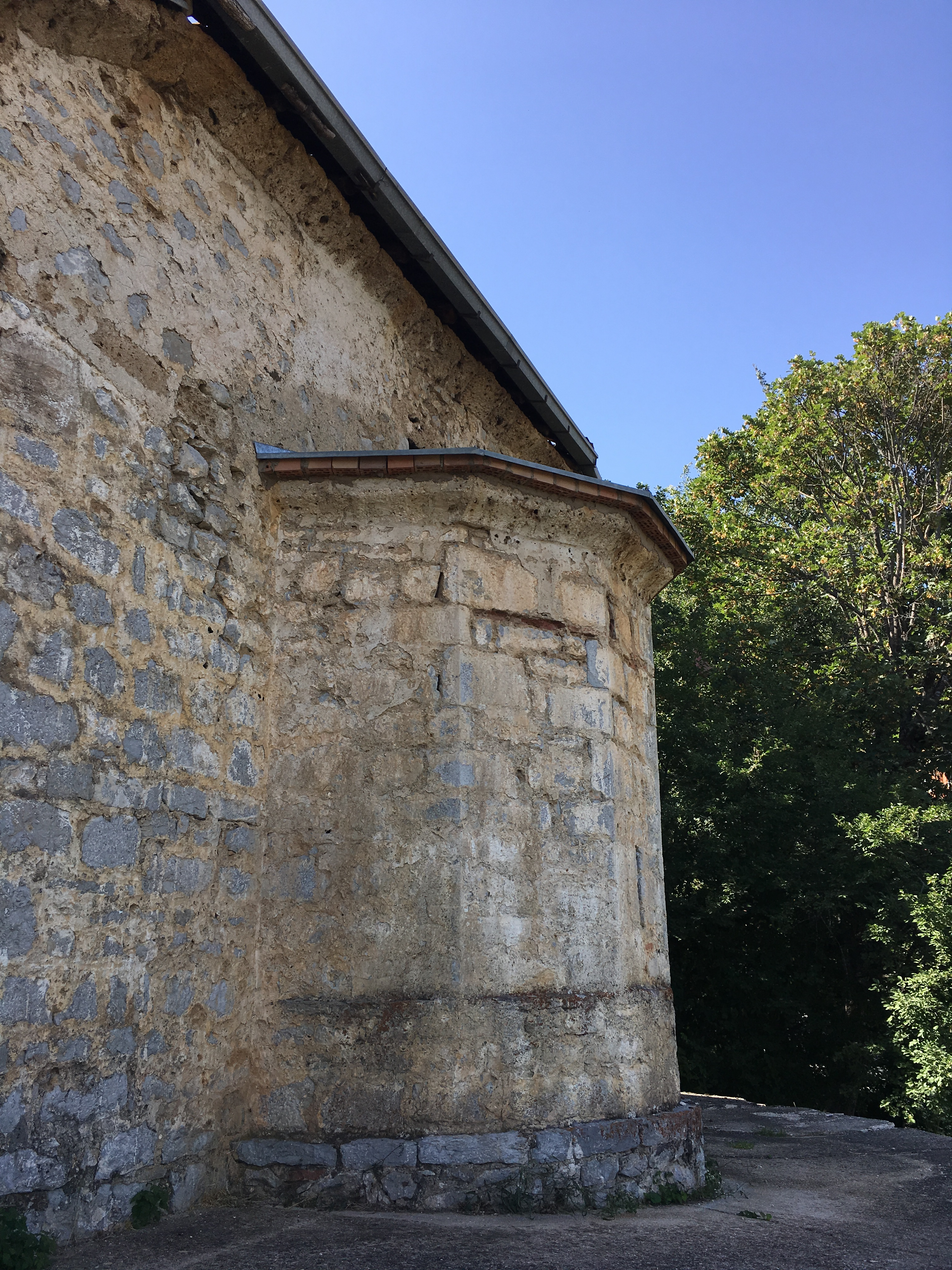 The apse of St. Nicholas Church in the village of Labuništa